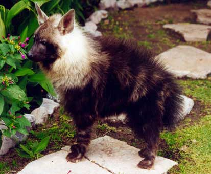 A Brown Hyena (Hyaena brunnea Syn. Parahyaena brunnea) puppy.